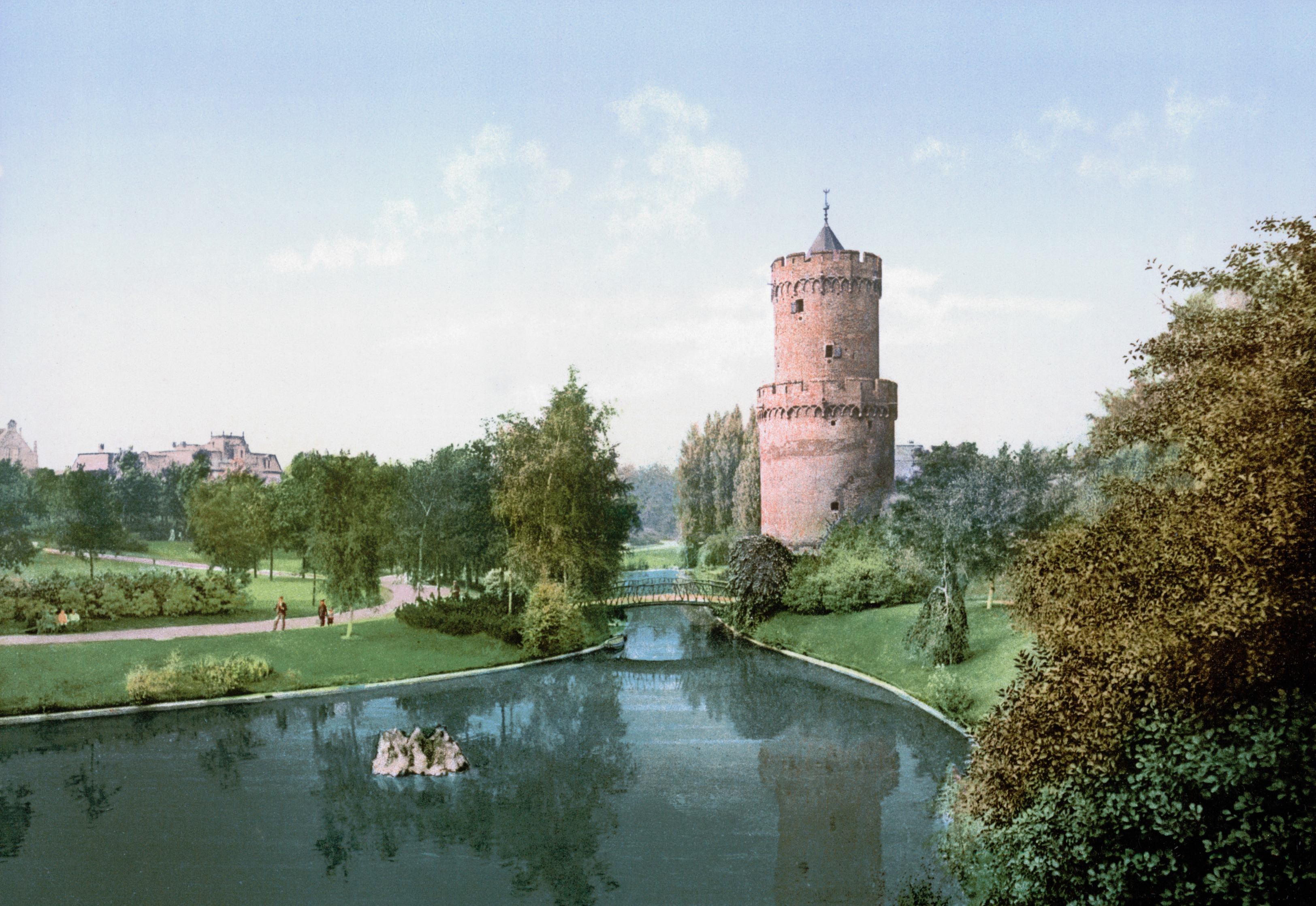 Nijmegen (Netherlands) - kronenburger park